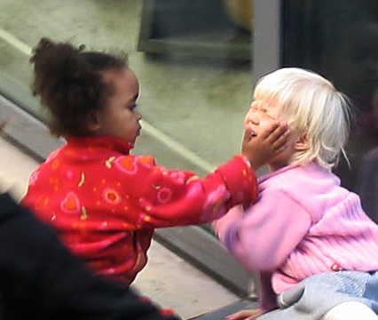 a shot I did in Stockholm back in 2003. Used in this site And this one And this one